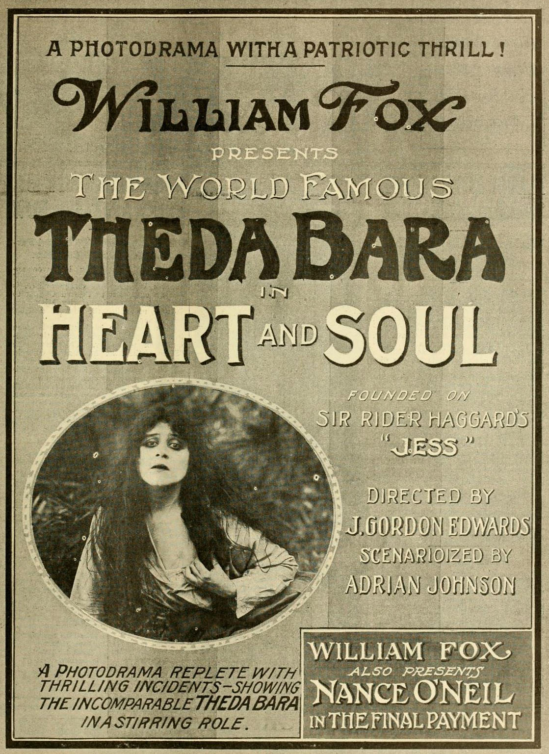 Advertisement in Moving Picture World for the film Heart and Soul (1917).